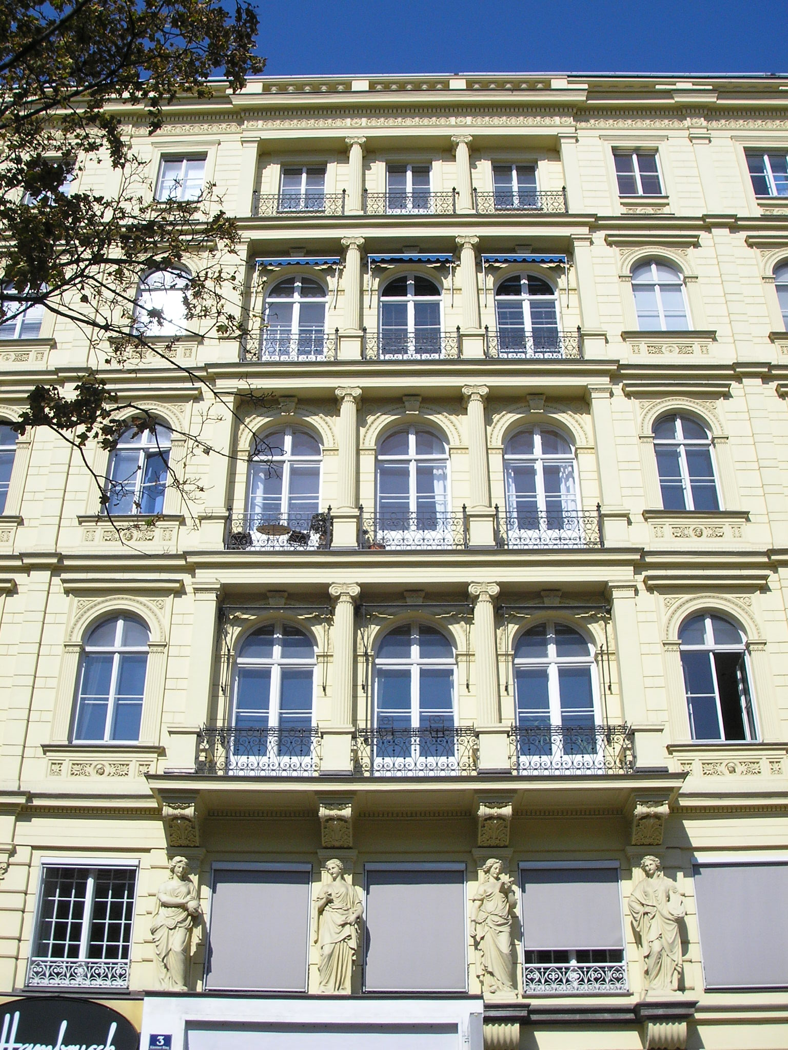 Image of Palais Gomperz in Vienna, Kärntner Ring 3. It used to be owned by the Austrian Jewish aristocratic family von Gomperz, who played a prominent role in the life and development of Vienna during the monarchy.